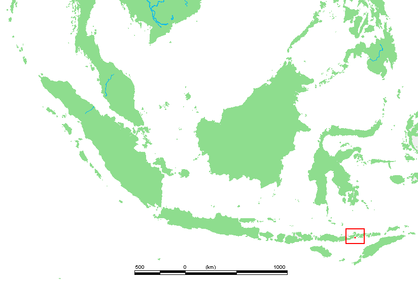 ID Solor.PNG